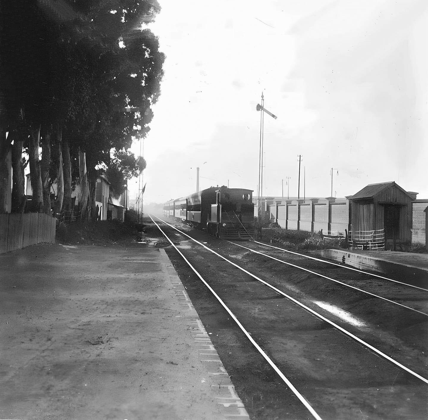 Recoleta train station of Buenos Aires Northern Railway, current B. Mitre Railway (Retiro-Tigre line).